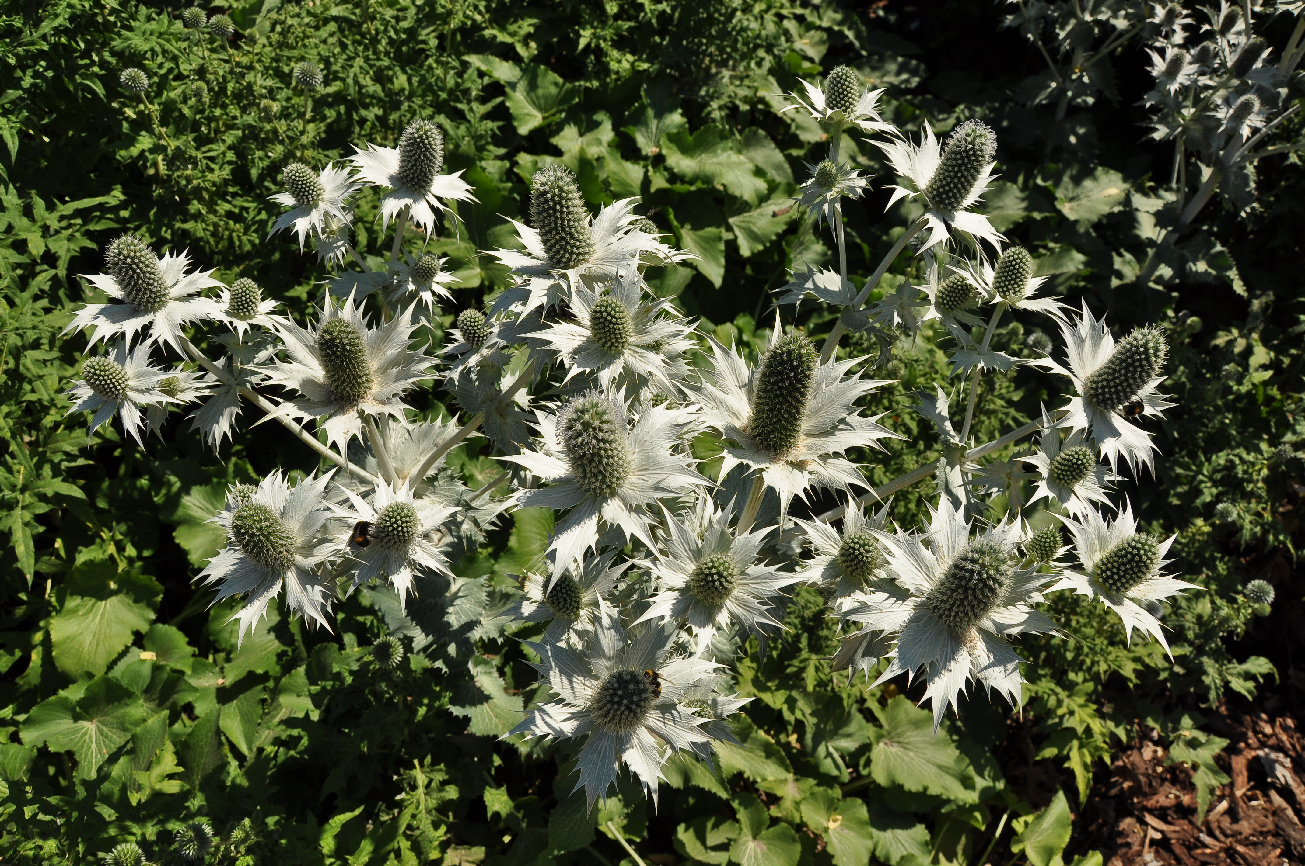 Eryngium giganteum in Thames Barrier Park, London.